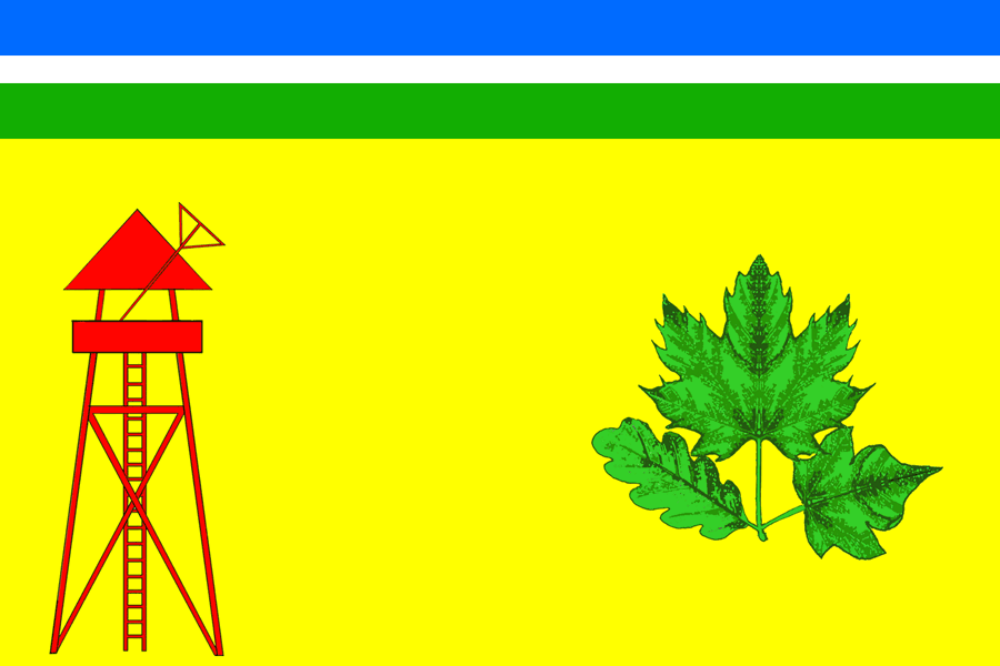 Flag of Ahmetovskoe rural settlement, Krasnodar Krai, Russia